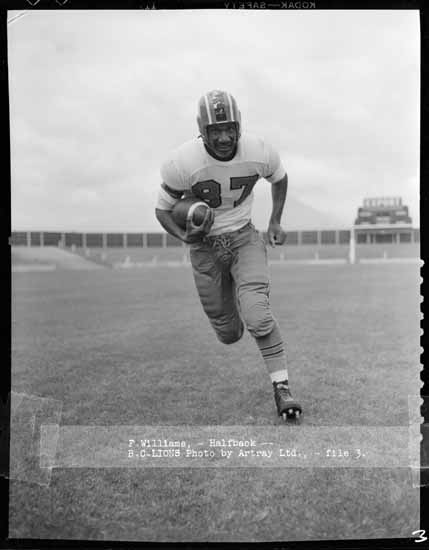 BC Lions football club, portraits, individual players, F. Williams VPL Accession Number: 84791B Date: August 21, 1955 Photographer / Studio: Jones, Art Content: Photo series 84791 to 84791AI Topic: Football players Portrait Stadiums Location: British Columbia - Vancouver - Hastings-Sunrise - Hastings Community Park Copyright Restrictions: Public Domain